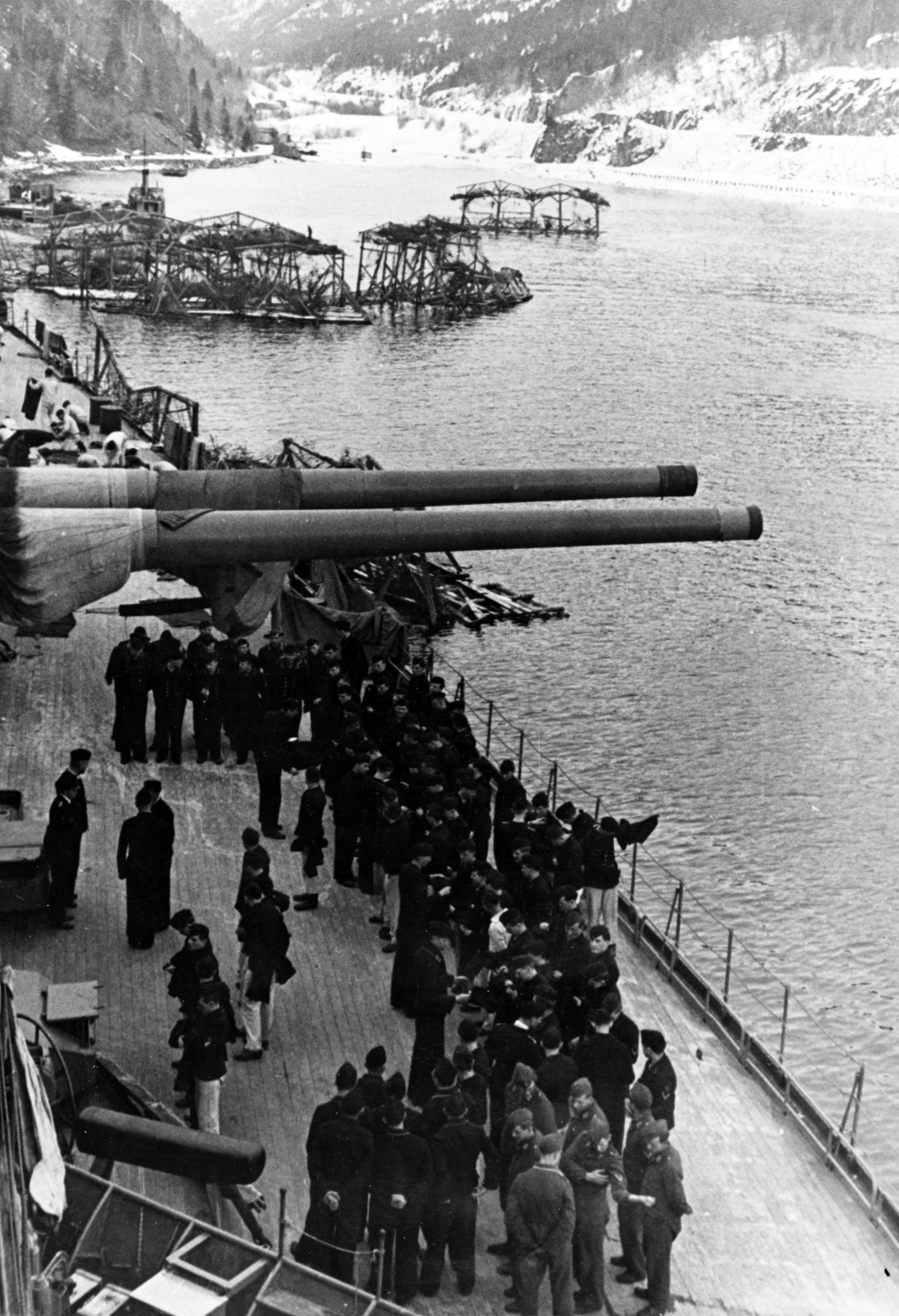 (German Battleship, 1941-44) Crewmen on board the battleship, while she was moored in a Norwegian fjord, circa 1942-44. One of the ship's 380mm (15) gun turrets is trained abeam, and several camouflage floats are in the distance. U.S. Naval History and Heritage Command Photograph.